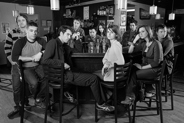 The Sketchersons (minus Pat Thornton and Cole Osborne) circa April 2010